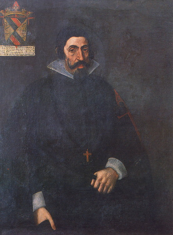 o conde